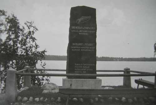 Statue in Tolvajärvi